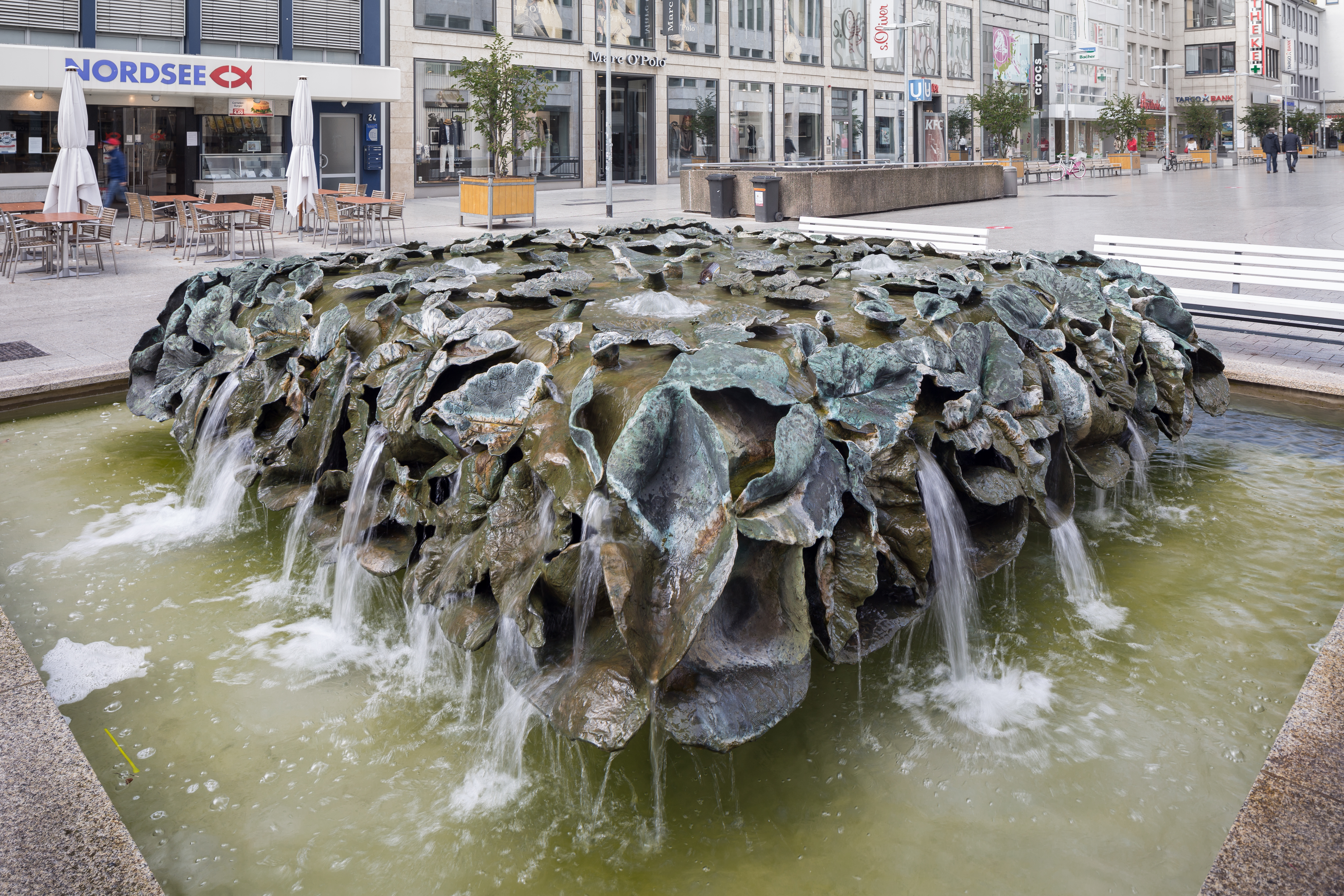 Sculpture "Staendehausbrunnen" by Emil Cimiotti (*1927) located at Karmarschstrasse / Staendehausstraße in Hanover, Germany.